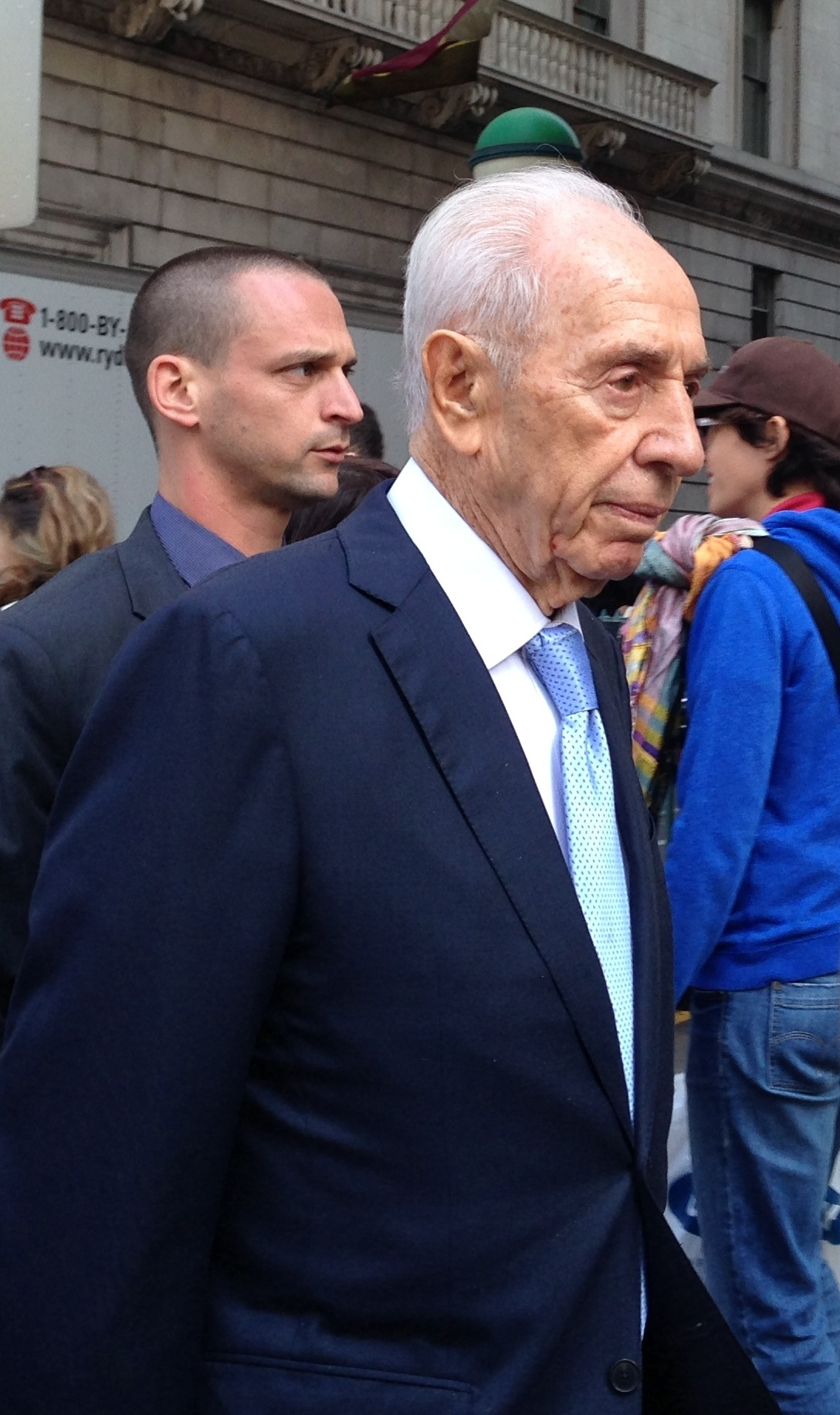 Former Israel President, Prime Minister Shimon Peres